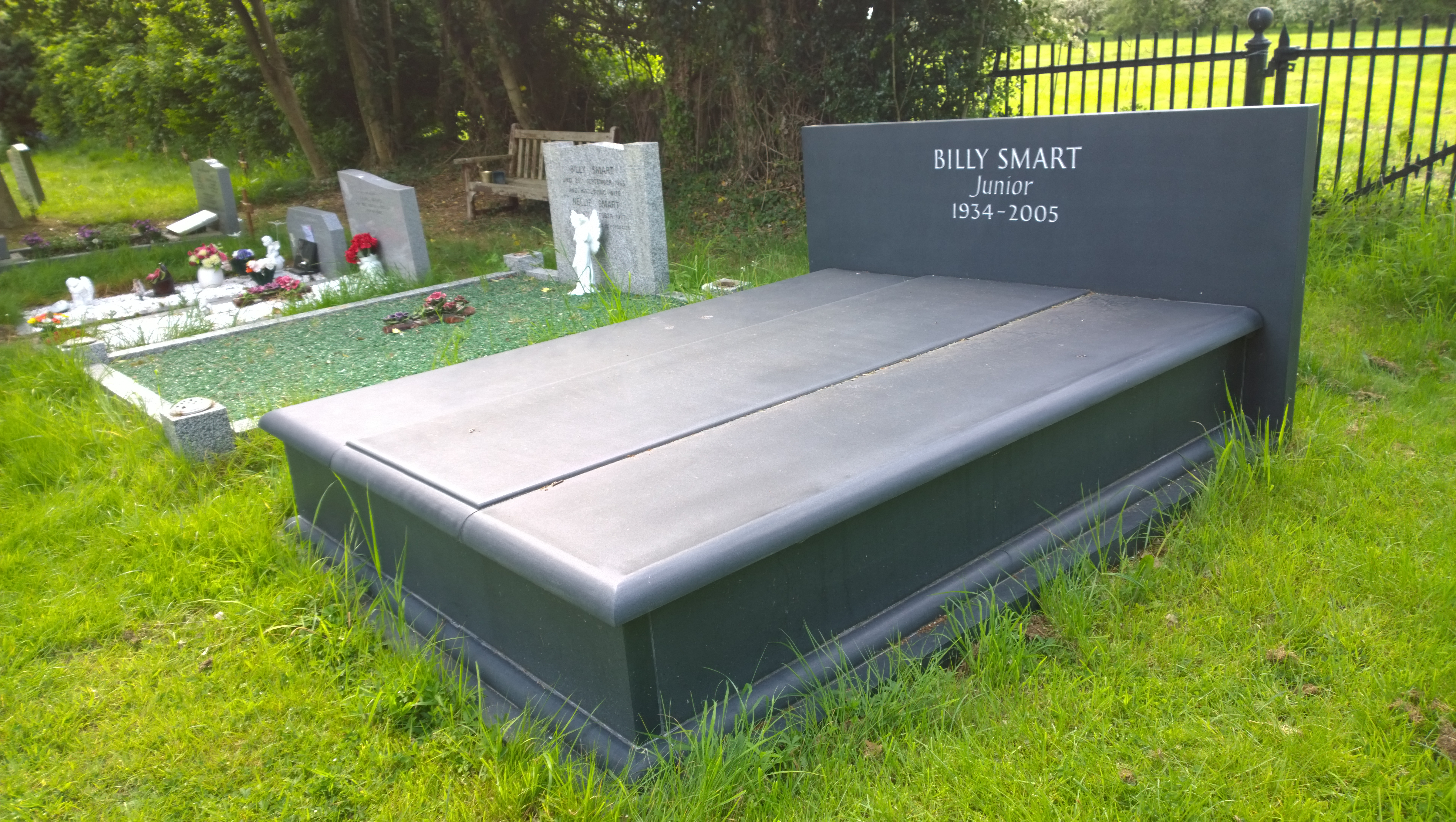 Grave of Billy Smart Junior Circus Performer and Impresario. St Peters Church, Cranbourne, Berks, England